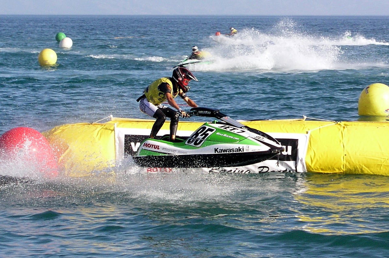 European Jet Ski Championship, Crikvenica, Croatia